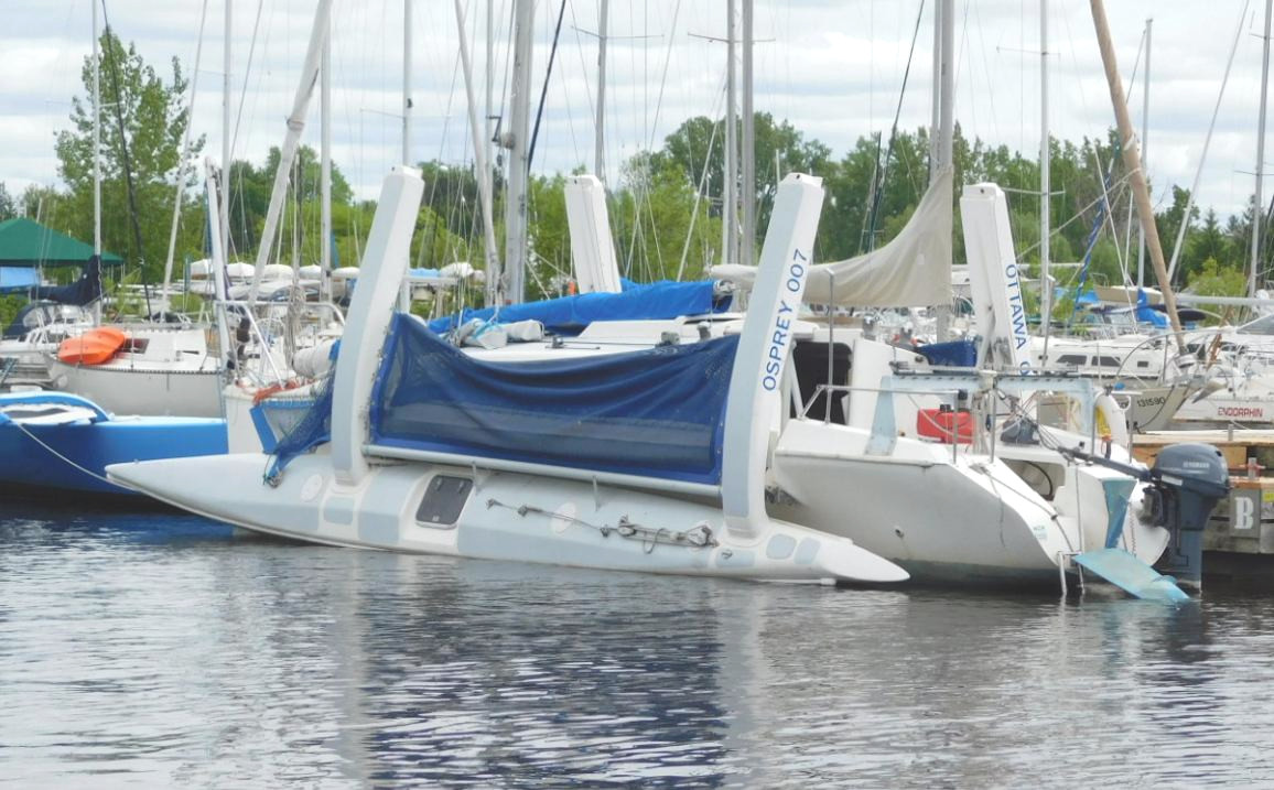 A Corsair F31 trimaran sailboat named Osprey, with its outriggers folded.